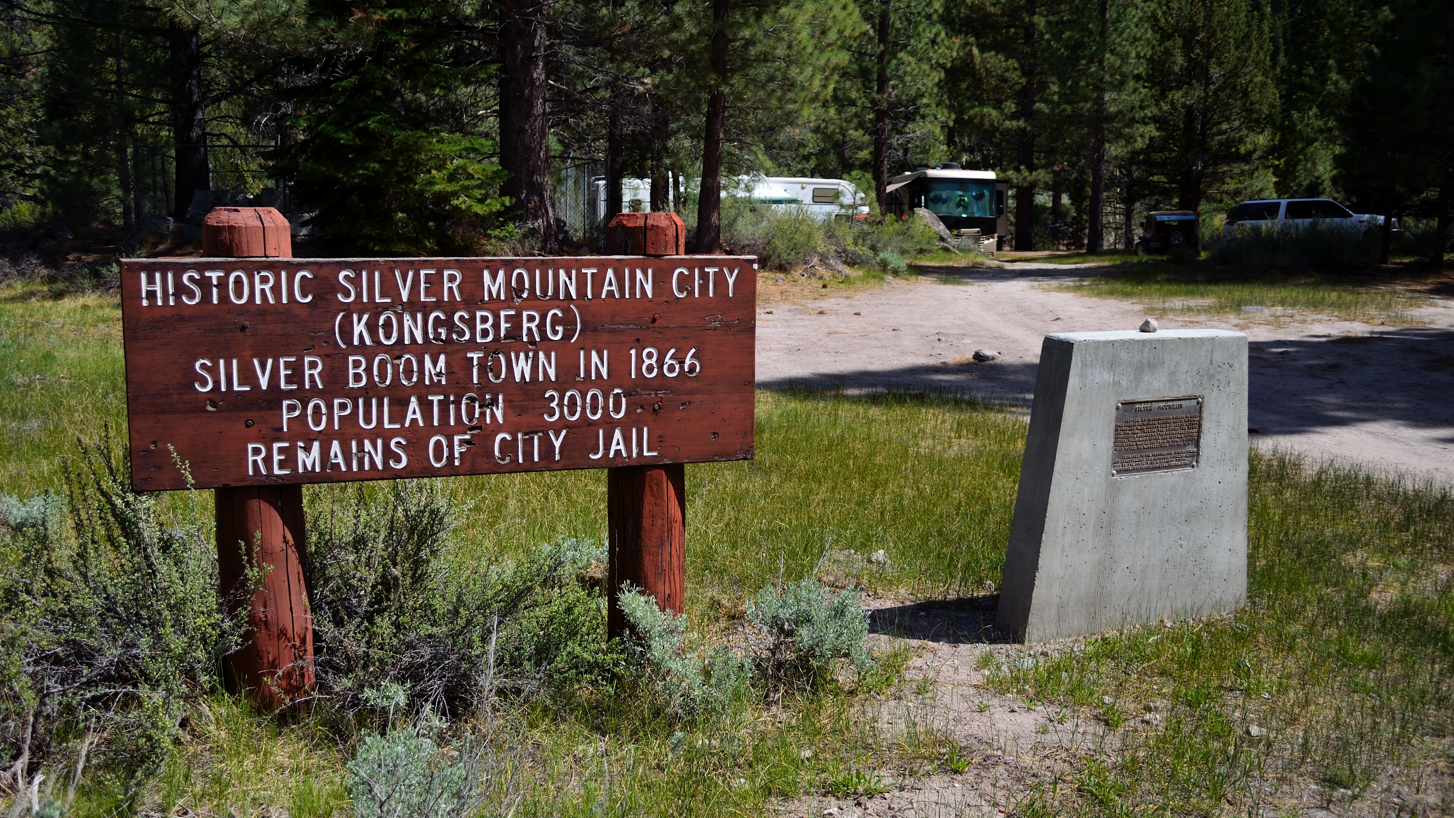 Signs at the Silver Mountain site in Alpine County, California.